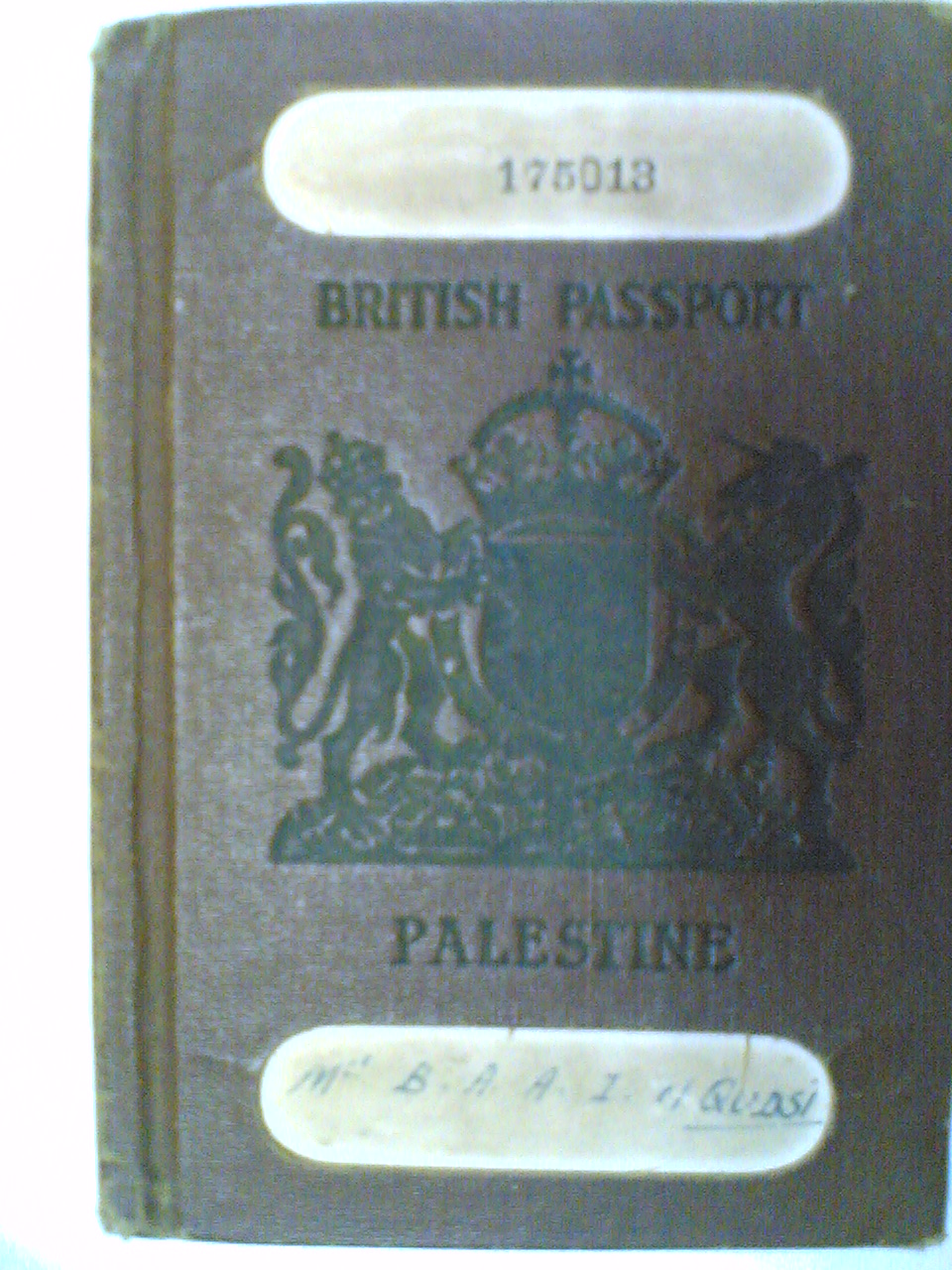 British Palestine mandate passport before 1948